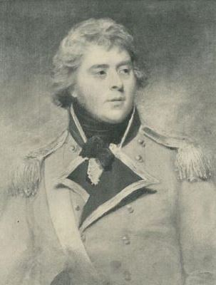 Earl Temple, later 1st Duke of Buckingham and Chandos